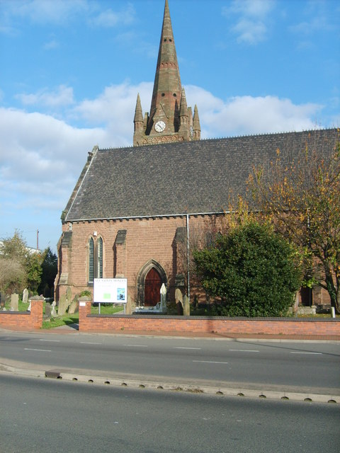 All Saints Moxley A Church on the Black Country New Road.